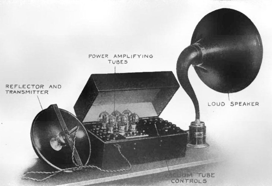 One of the first electronic public address systems from about 1920, used to amplify a speaker's voice when addressing a crowd. It consisted of a microphone (left, then called a "transmitter"), attached to a vacuum tube amplifier (center) to increase the power of the audio signal, which drove a horn loudspeaker (right). The microphone has a metal reflector to concentrate the sound waves, allowing the speaker to stand back from it while speaking so the microphone would not obscure his face. The primitive triode vacuum tubes had very low gain, so the amplifier used six tubes (visible in center). Even so, the output power of the amplifier was only about 10 watts, so the system uses a horn speaker to create enough sound volume to fill a hall. This consists of a small driver unit (below horn) containing a metal diaphragm vibrated by a coil of wire moving in a magnetic field, creating sound waves, which were conducted to the open air by the flaring horn. The horn served to couple the diaphragm more efficiently to the air, increasing the efficiency of the speaker, so it radiated much more sound power from a given audio signal than an ordinary cone speaker. The Magnavox moving-coil loudspeaker, invented in 1915, a later model of which is shown above, made practical loudspeakers and public-address systems possible. It was first tried out before a crowd of 50,000 during the Municipal Christmas Tree Celebration on Christmas Eve, 1915, in San Francisco.